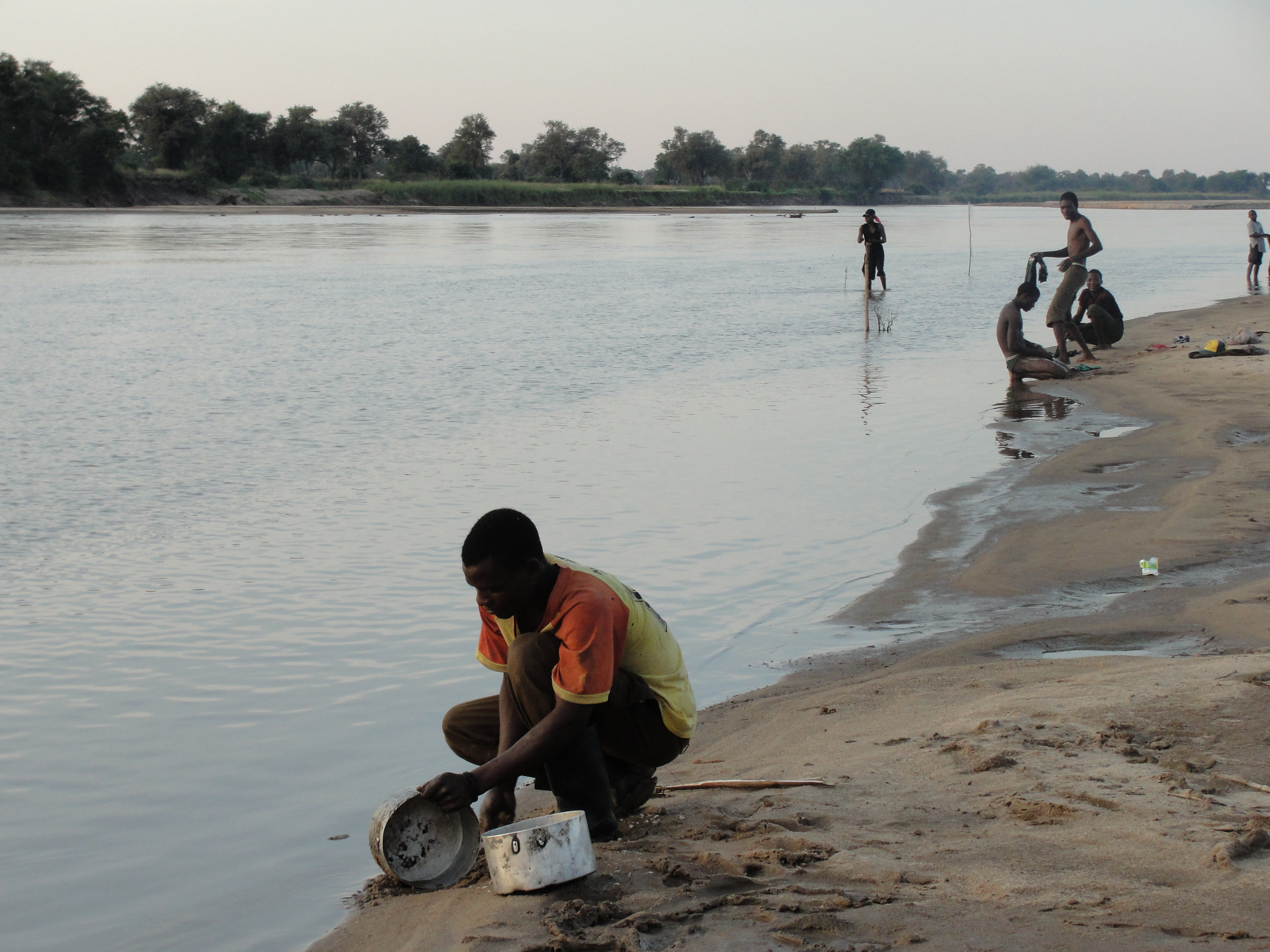 Kunda people on Luangwa River near Mfuwe, Zambia